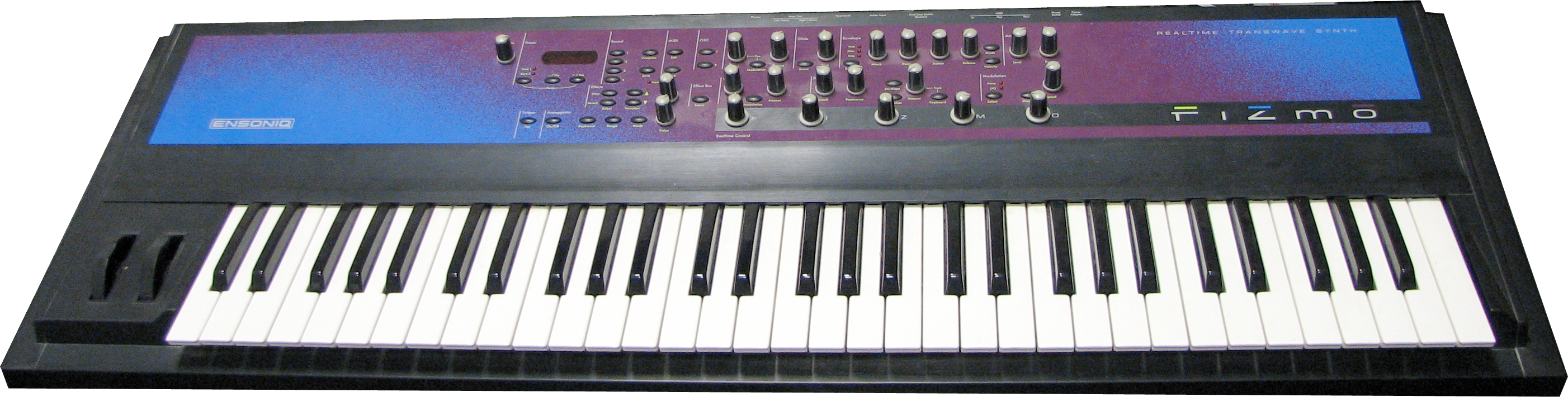 An Ensoniq Fizmo keyboard. Own image.